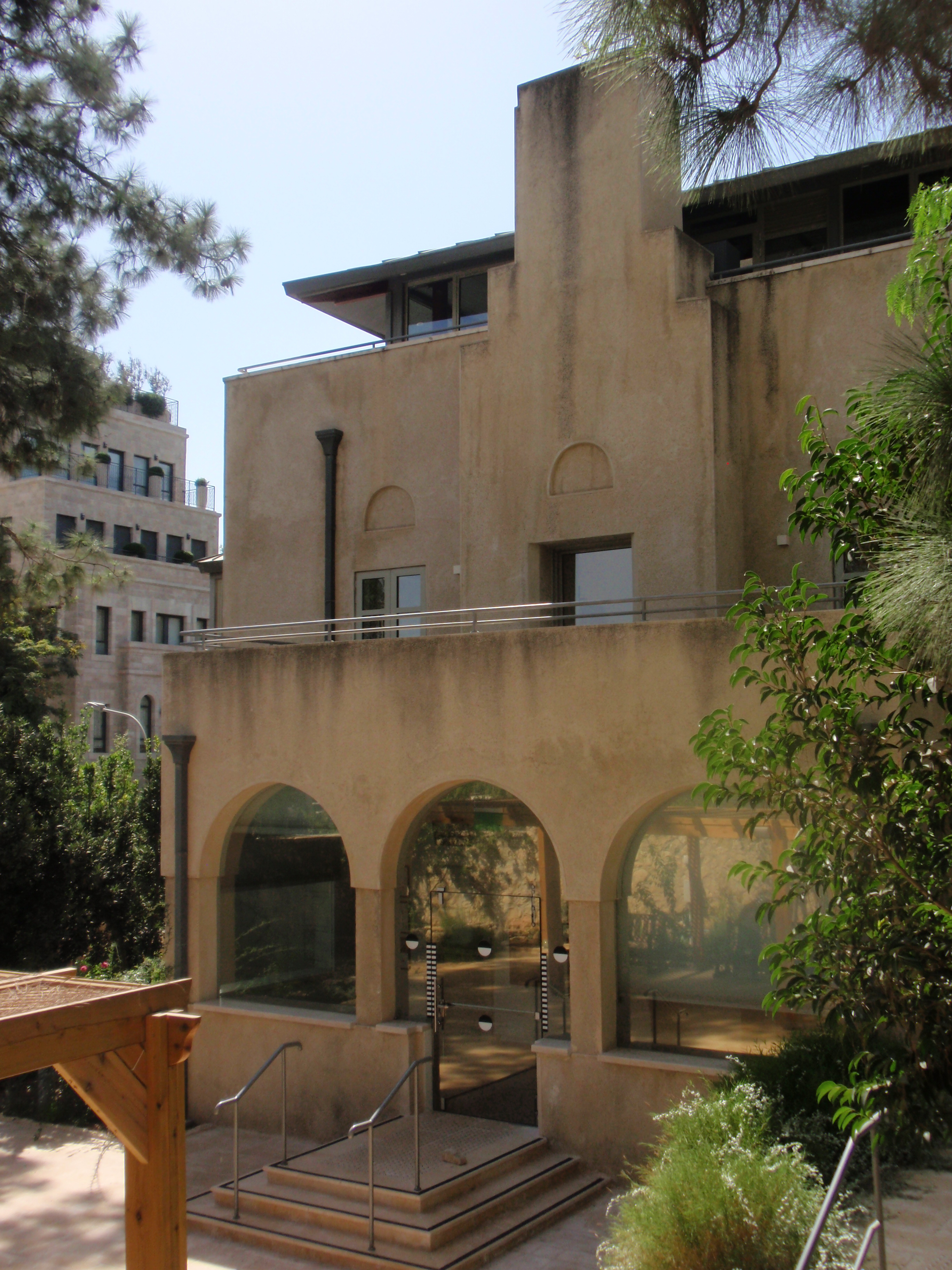 The first official Prime Minister's Residence of Israel, nowadays a center in memory of Prime Minister Levi Eshkol operated by Yad Levi Eshkol